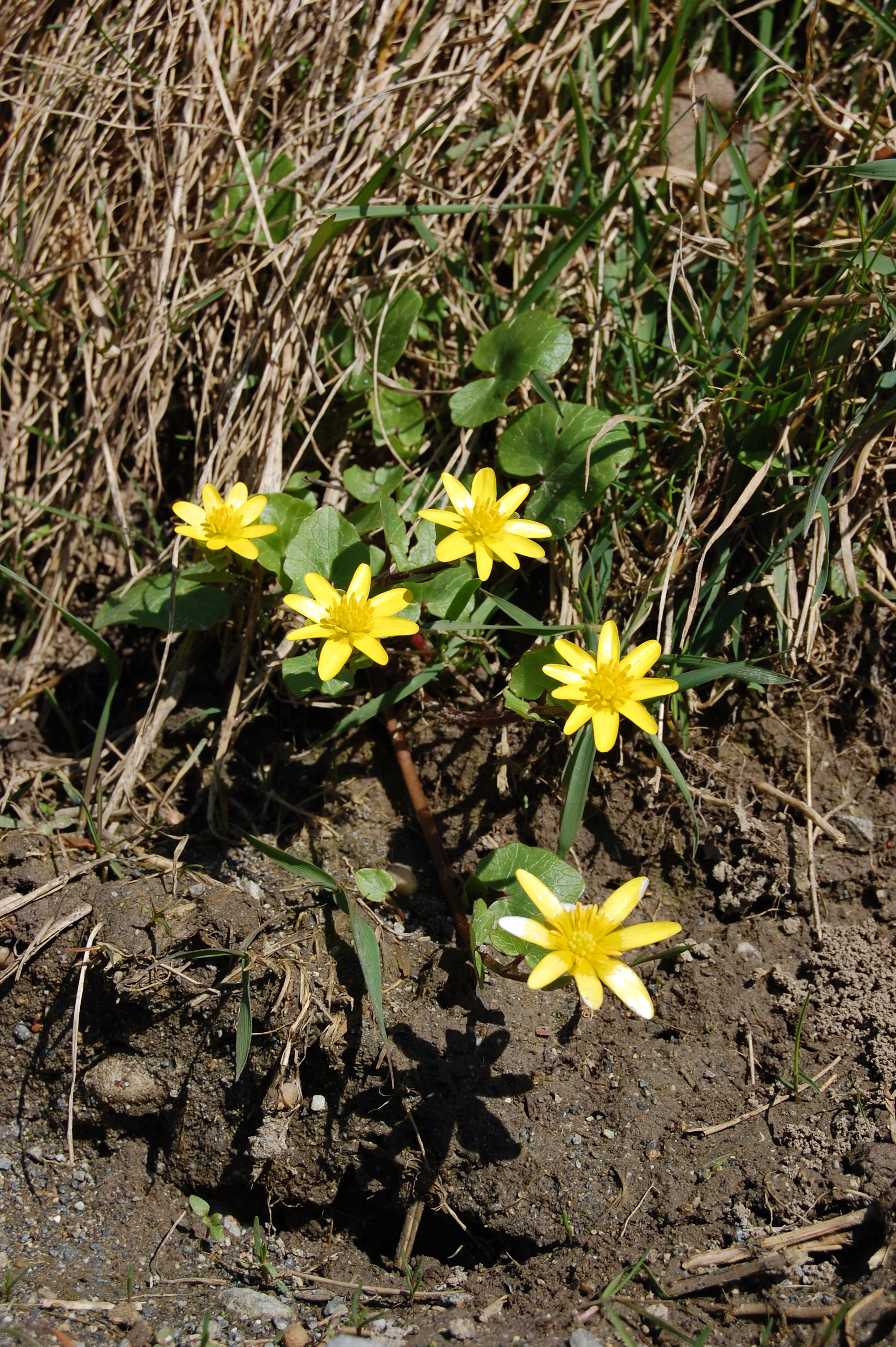 Ranunculus ficaria